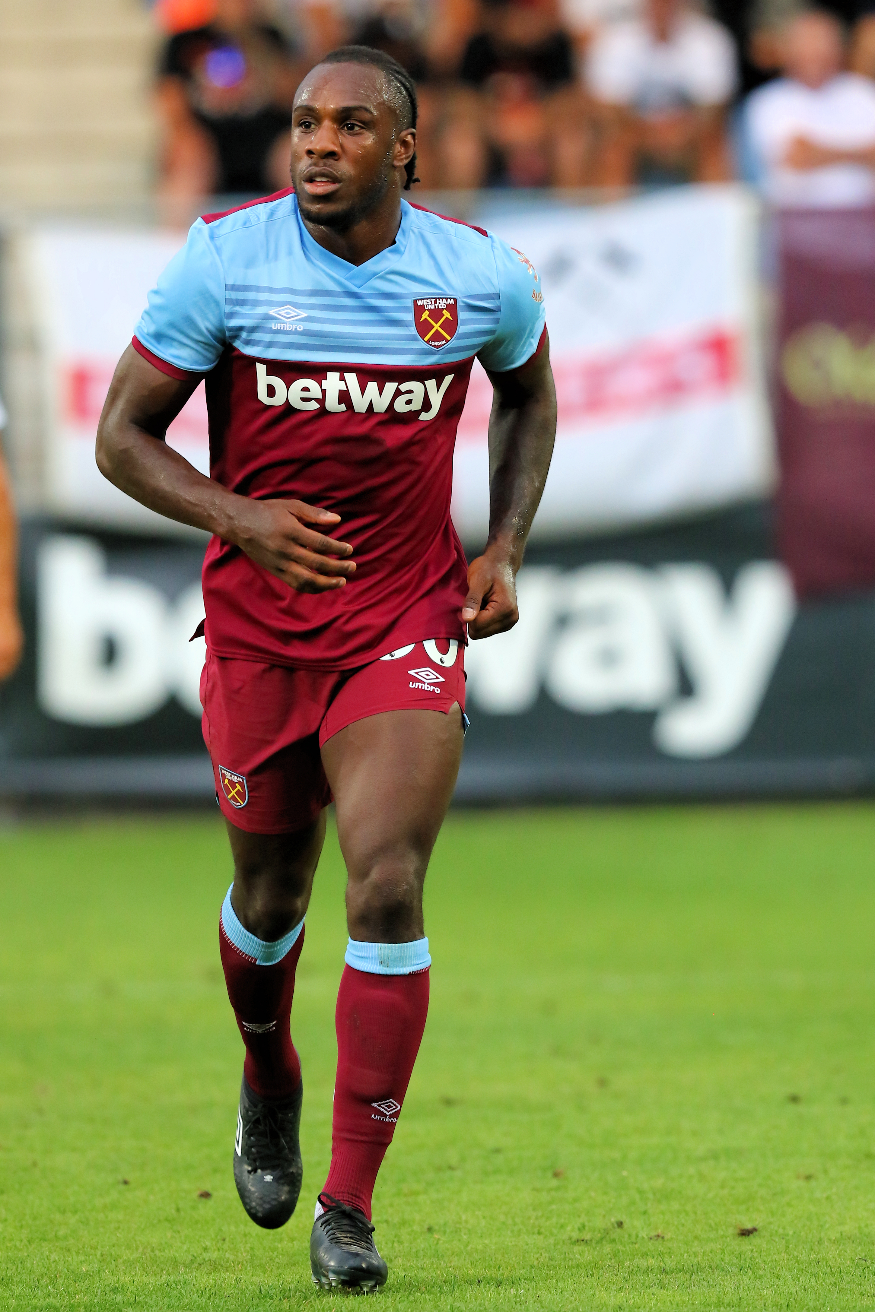 Friendly match Hertha BSC (blue-white shirts) vs. West Ham United (red-blue shirts) at 31-07-2019 3-5 (3-2) in the Sonnenseestadium in Ritzing. – The photo shows Michail Antonio (West Ham United).